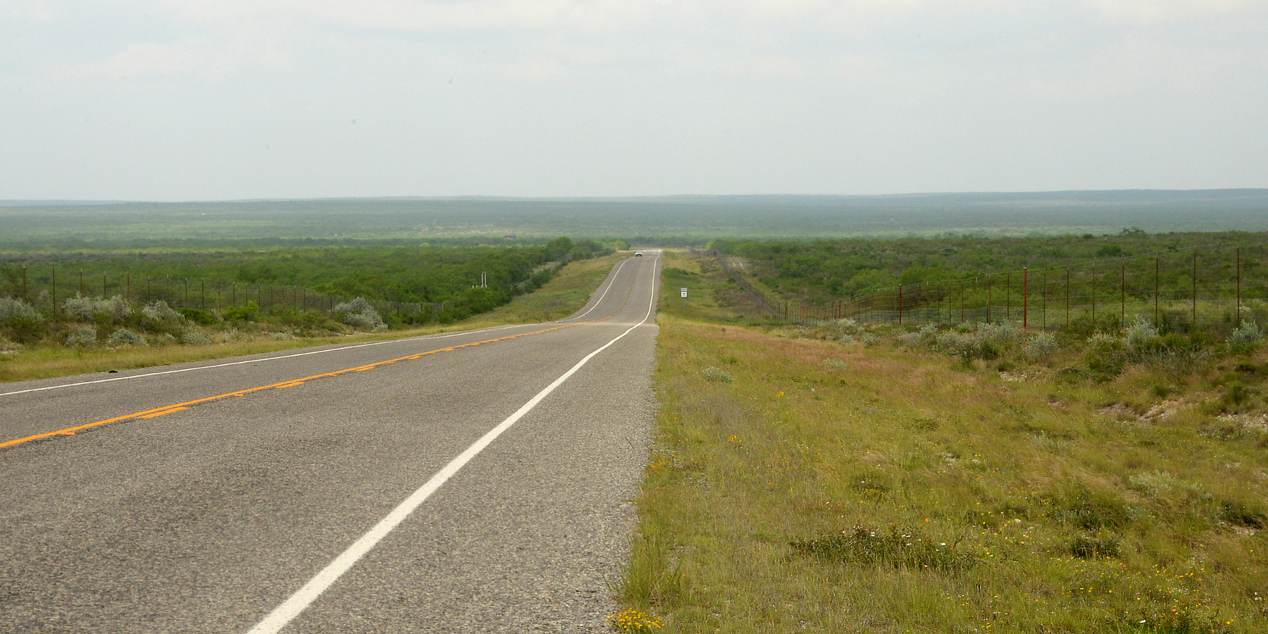 South Texas thornscrub seen from Texas State Highway 16, Duval County, Texas, USA. Photographed on 16 April 2016 by William L. Farr.